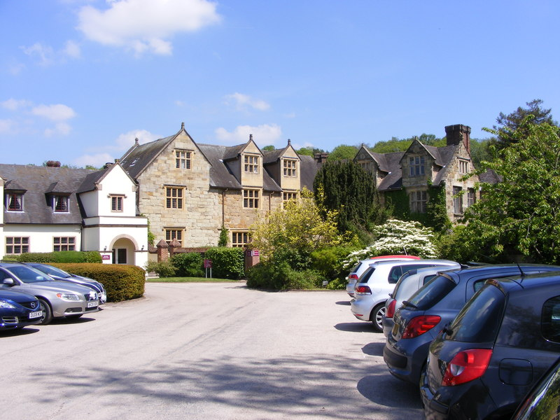 Madeley Court Car Park View